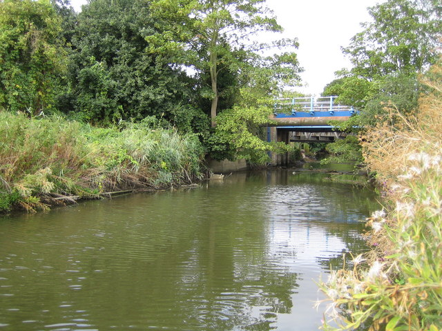 Mar Dyke: near Purfleet. Looking downstream, the first bridge crossing carried the now disused A1090 road into Purfleet. This road and its level crossing over the railway have been replaced by a new road and bridge that span both the local railway and the new Channel Tunnel Rail Link.